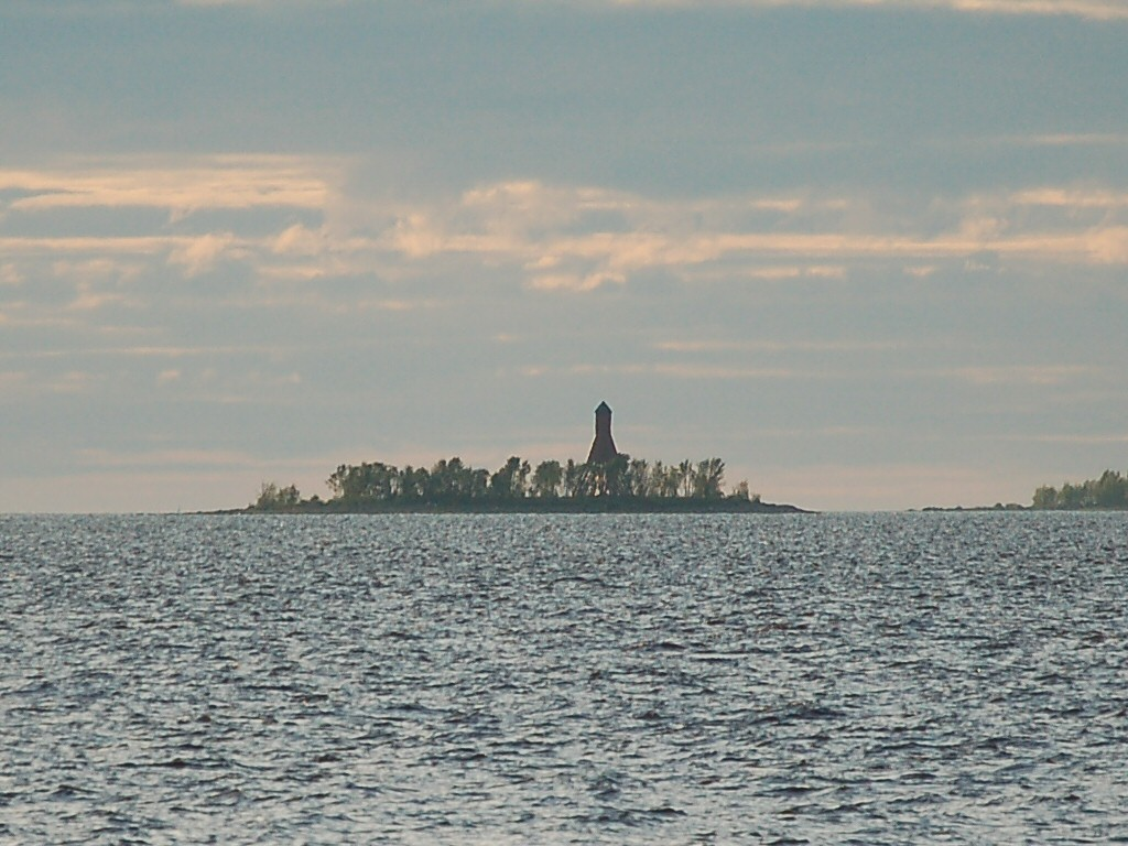 A daymark tower on the Laitakari island near Oulu, Finland. Photographed from a distance of 5,5 kilometers.